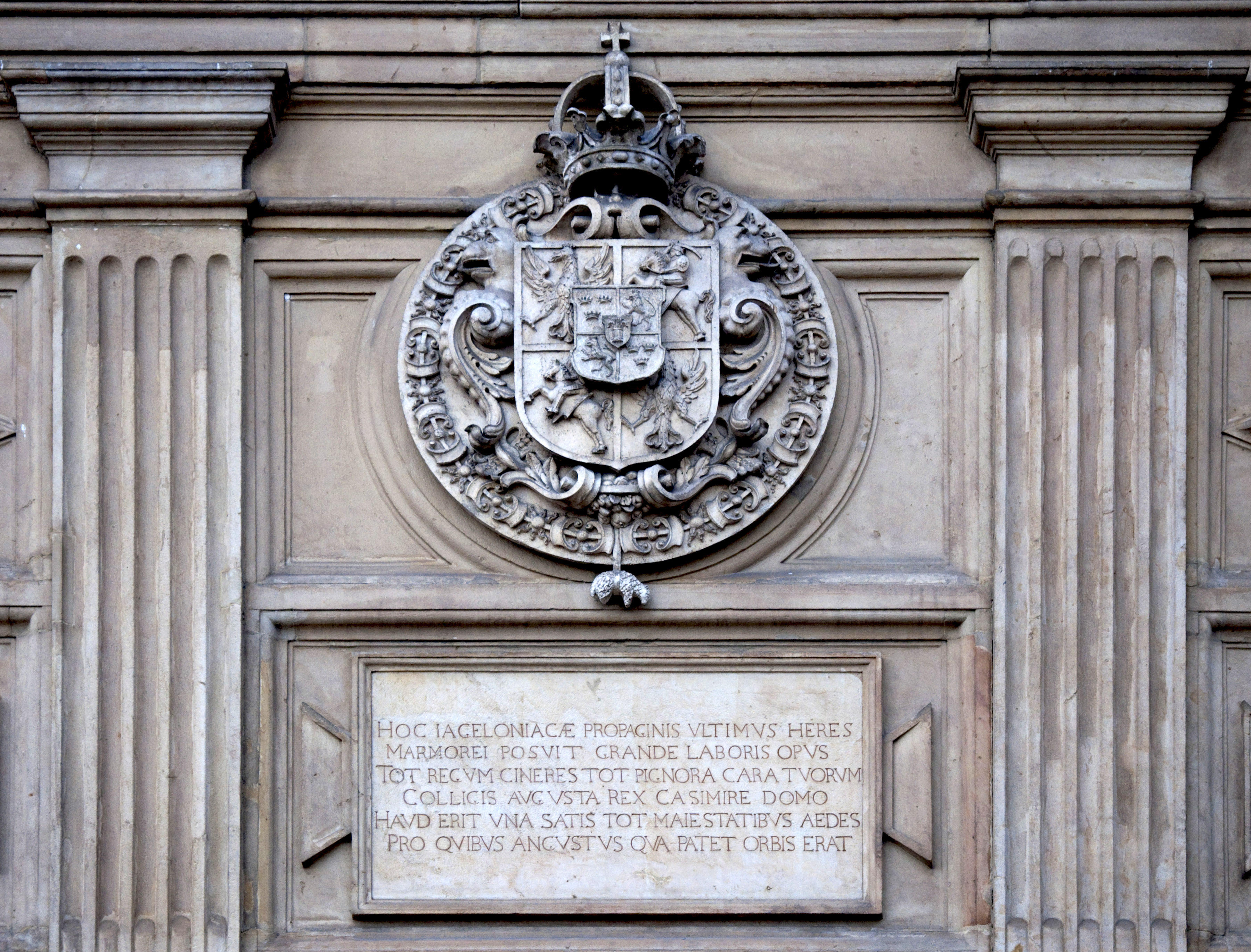 Dedication of Vasa's Chapel, Wawel Cathedral, Kraków